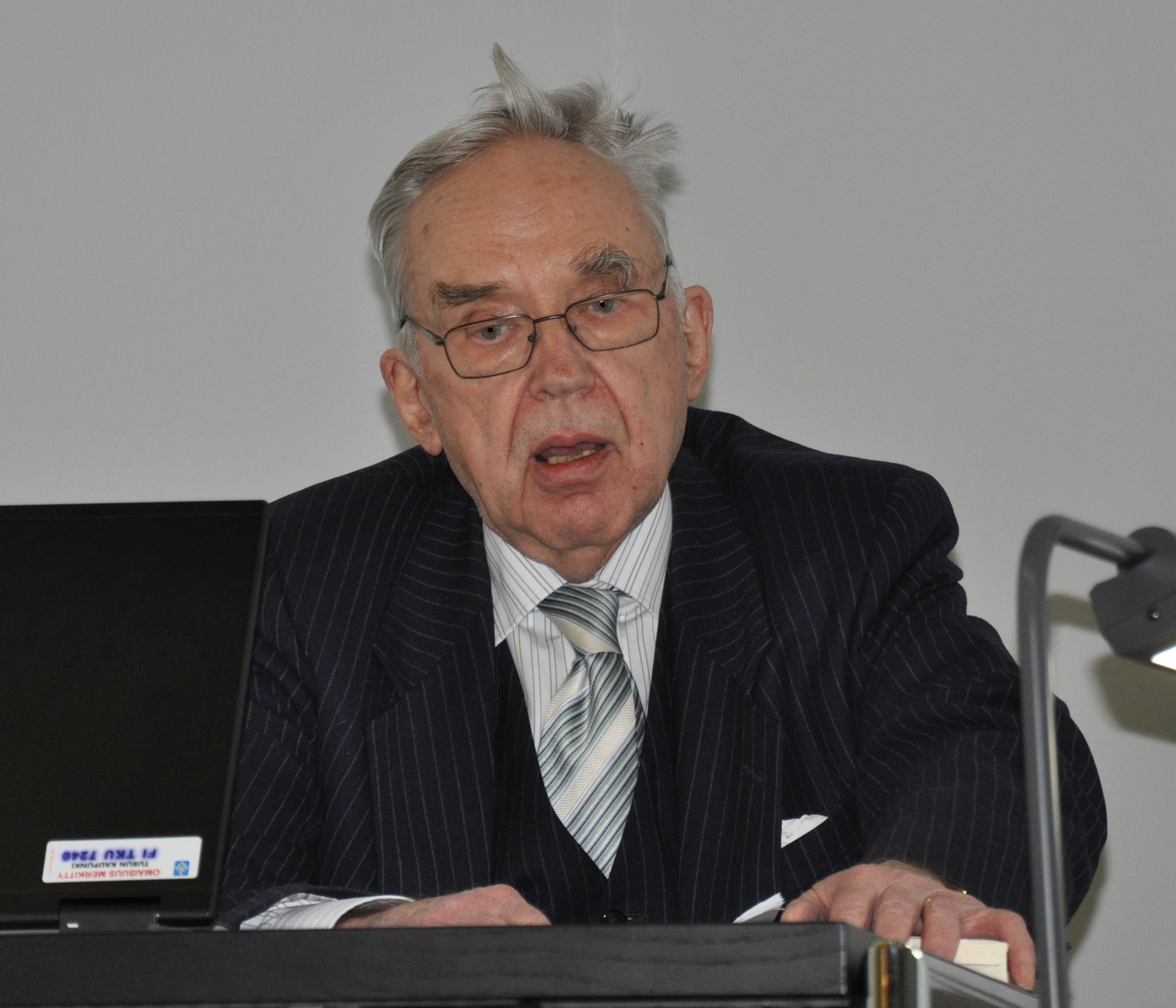 Finnish professor emeritus Teivas Oksala at Turku Main Library 2009.